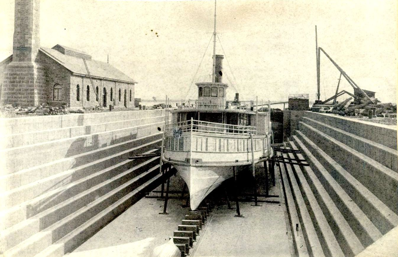 Shipyard in Kingston, Ontario, Canada in 1890's. The S.S. St. Lawrence is visible in drydock.